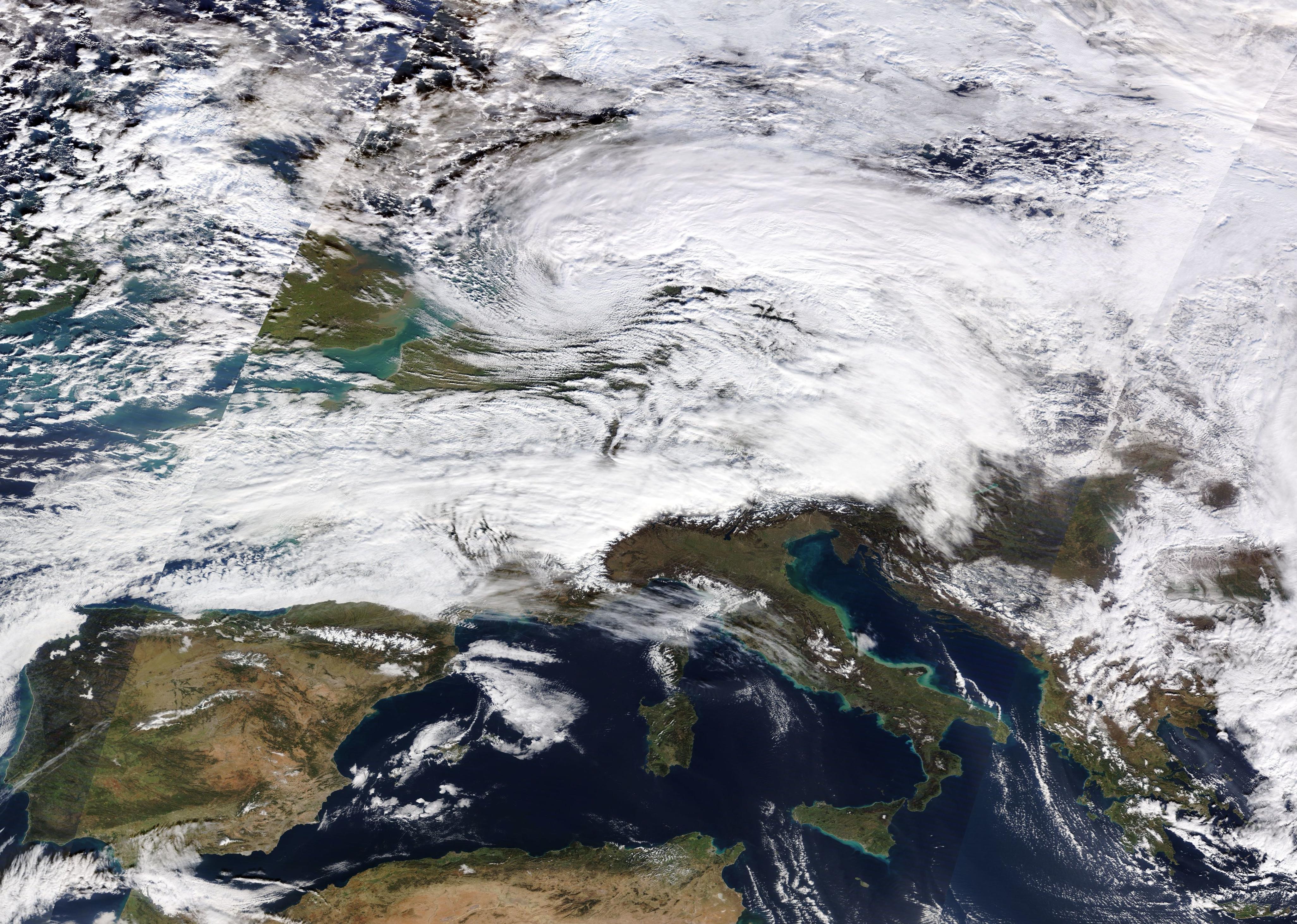 This image shows European windstorm/winter storm Friederike on 18. January 2018, approximately centered above the Benelux or Western Germany